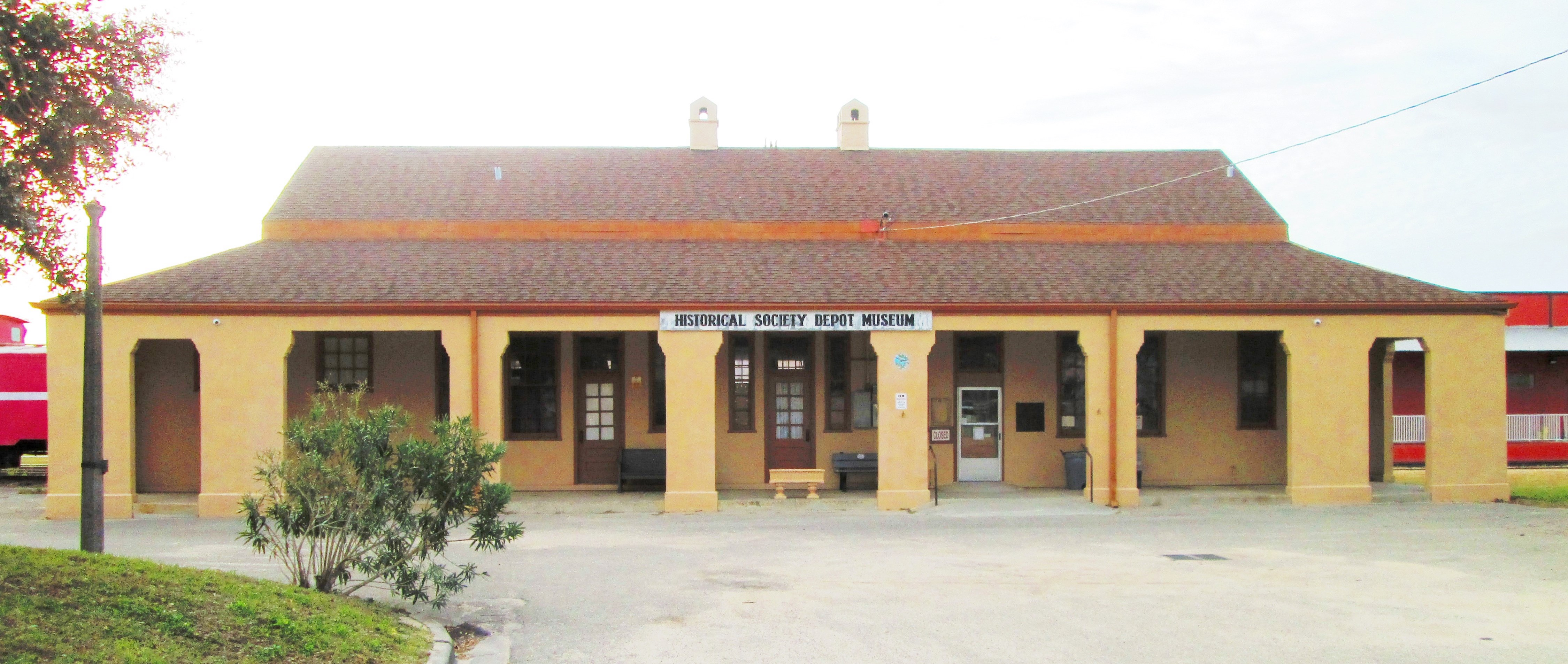 The front of the Old Lake Placid Atlantic Coast Line Depot, now the Historical Society Depot Museum of the Lake Placid Historical Society. Located at 12 East Park Street in Lake Placid, Florida, the depot was built in 1926 and saw passenger service until the mid-1950s, although freight service continued until the 1970s. It was added to the National Register of Historic Places in 1993.